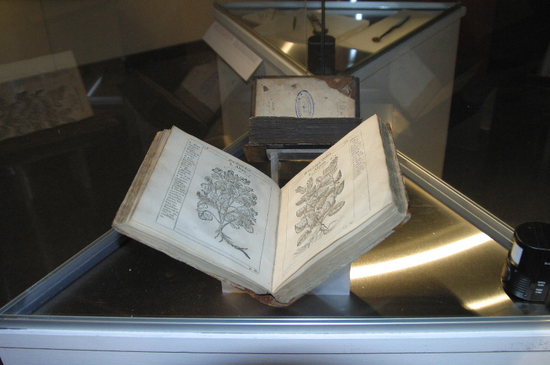 Herbal book of Henrik Smid.